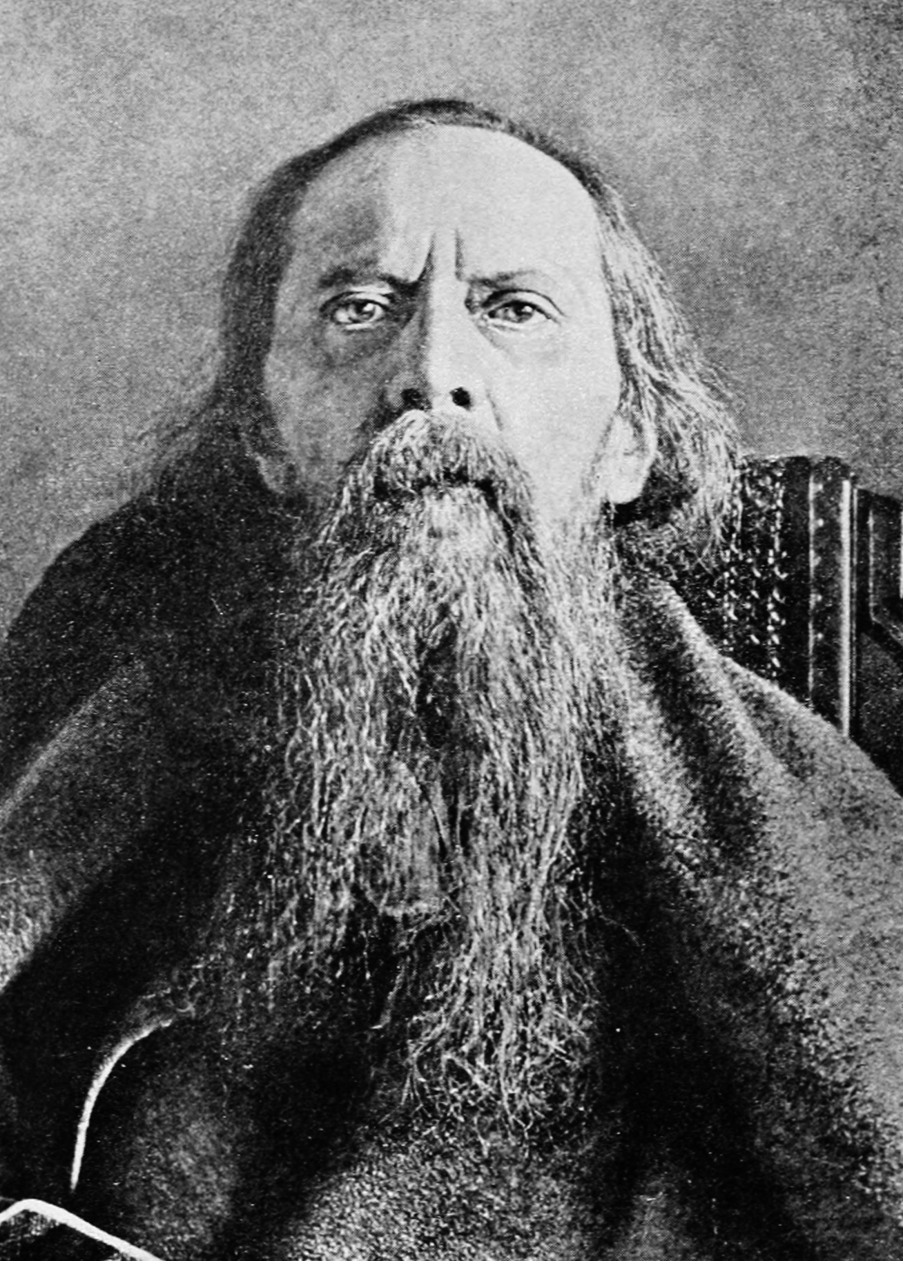 Mikhail Yevgrafovich Saltykov-Shchedrin (1826-1889)